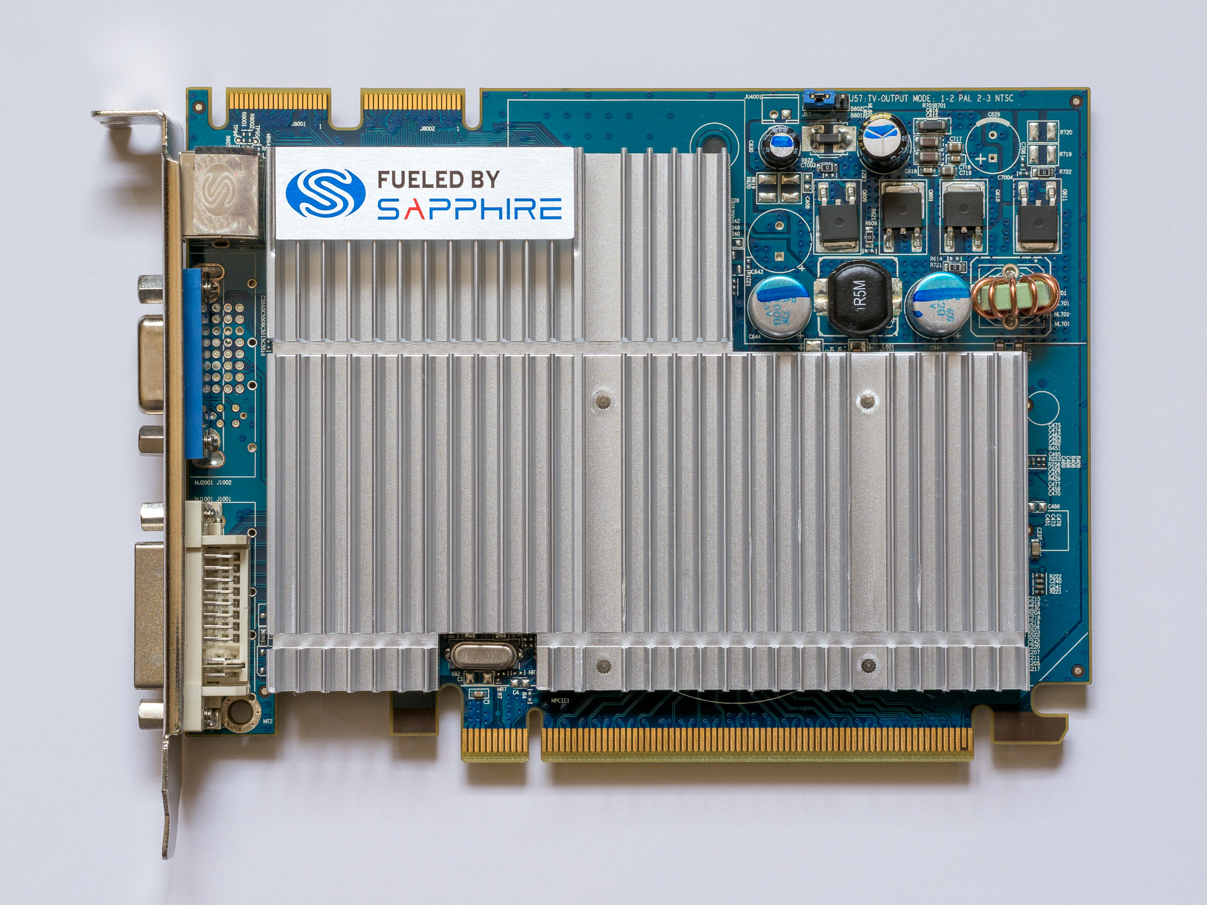 Sapphire ATI Radeon HD 2400 XT